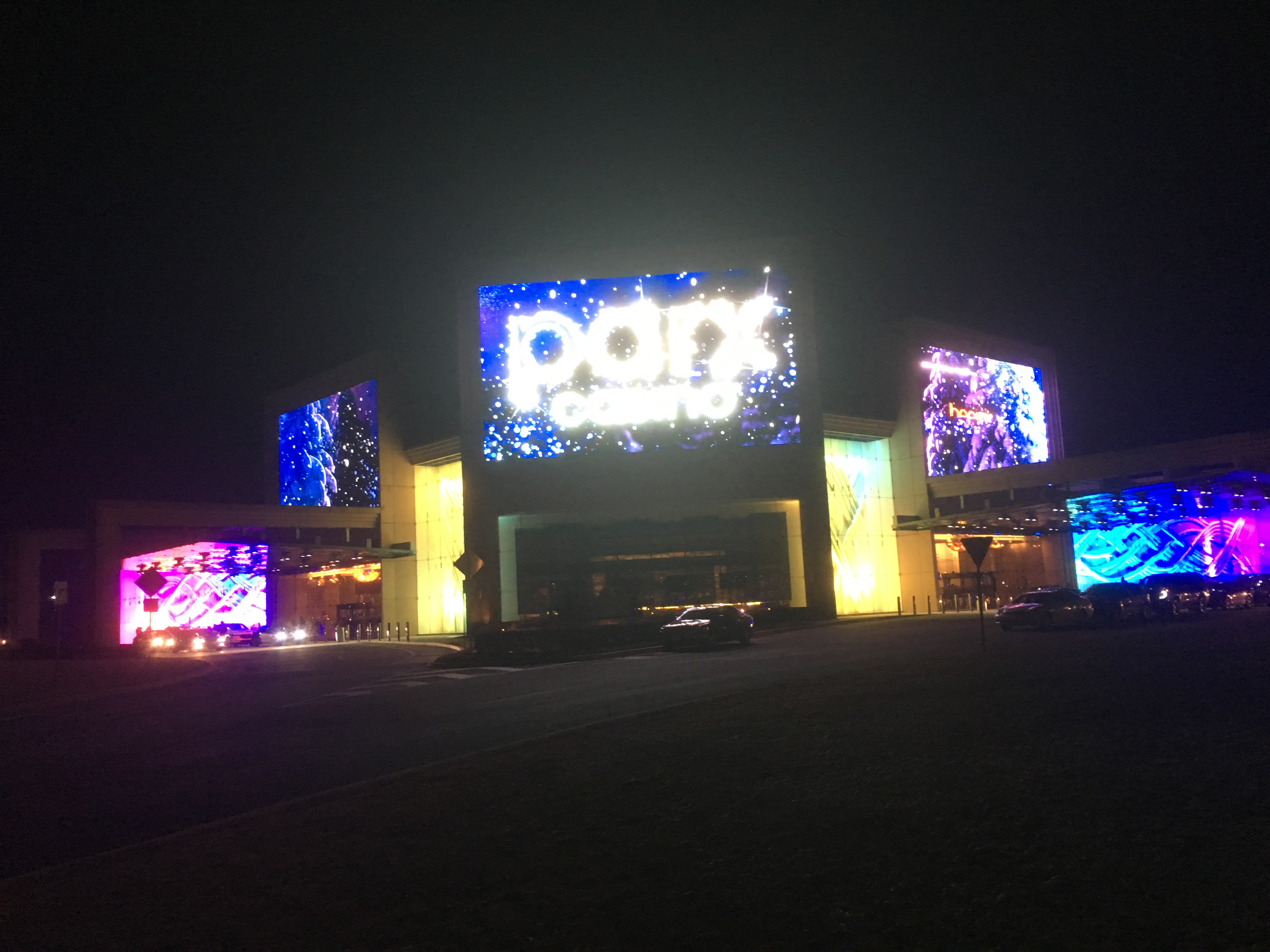 The main entrance to Parx Casino in Bensalem Township, Pennsylvania at night